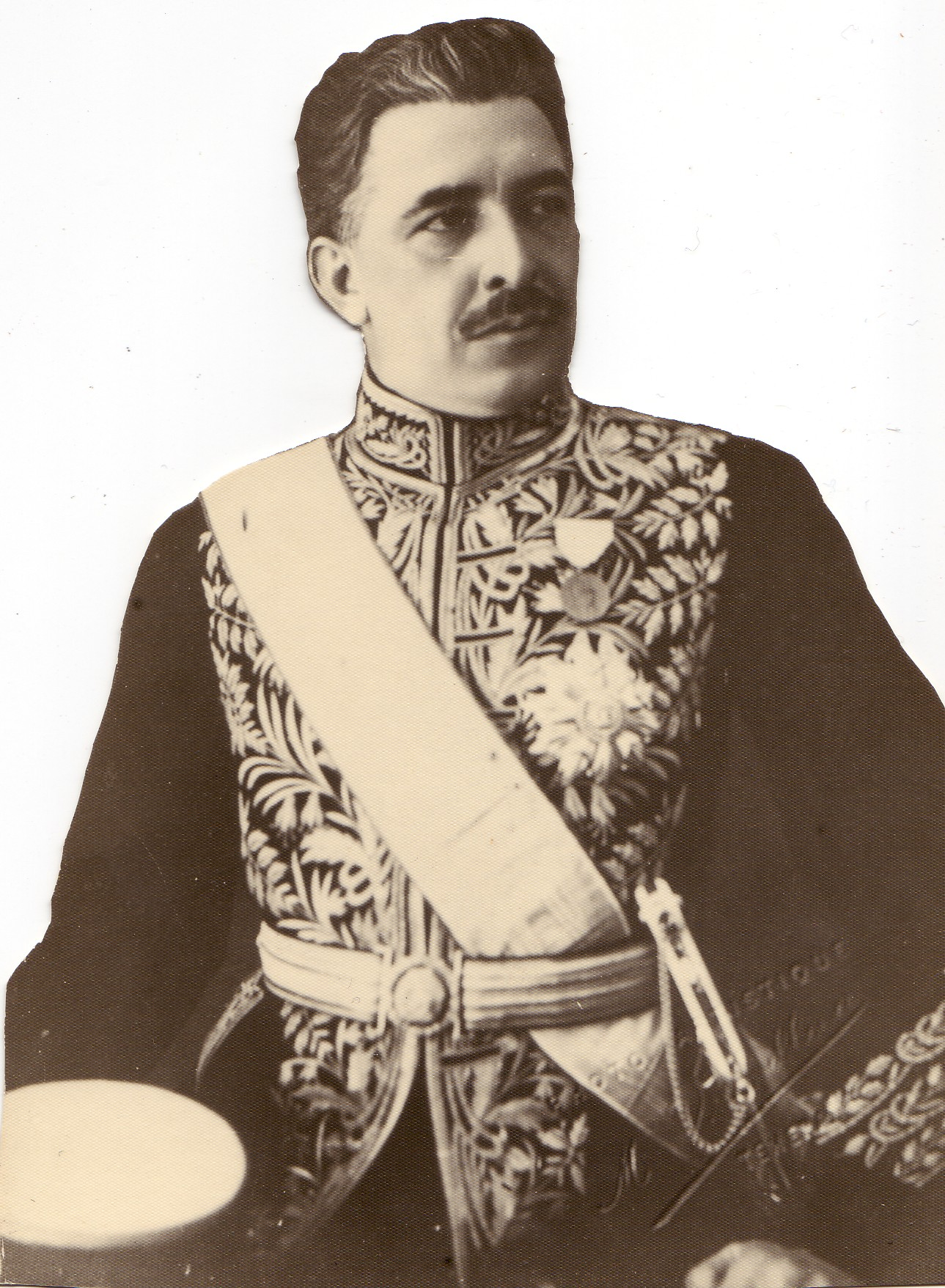 Teymourtash, myself, free dominion